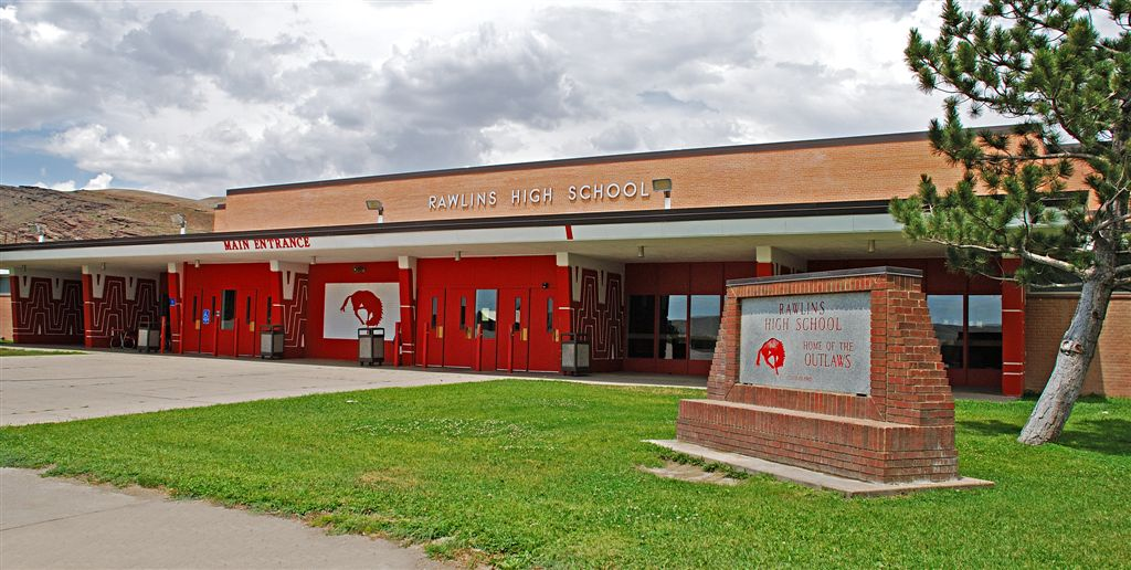 The front of Rawlins High School, during the summer of 2007.